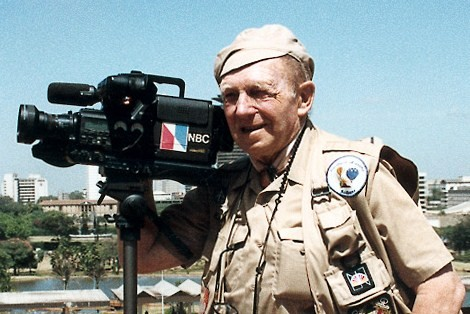 Tony Halik, Polish journalist